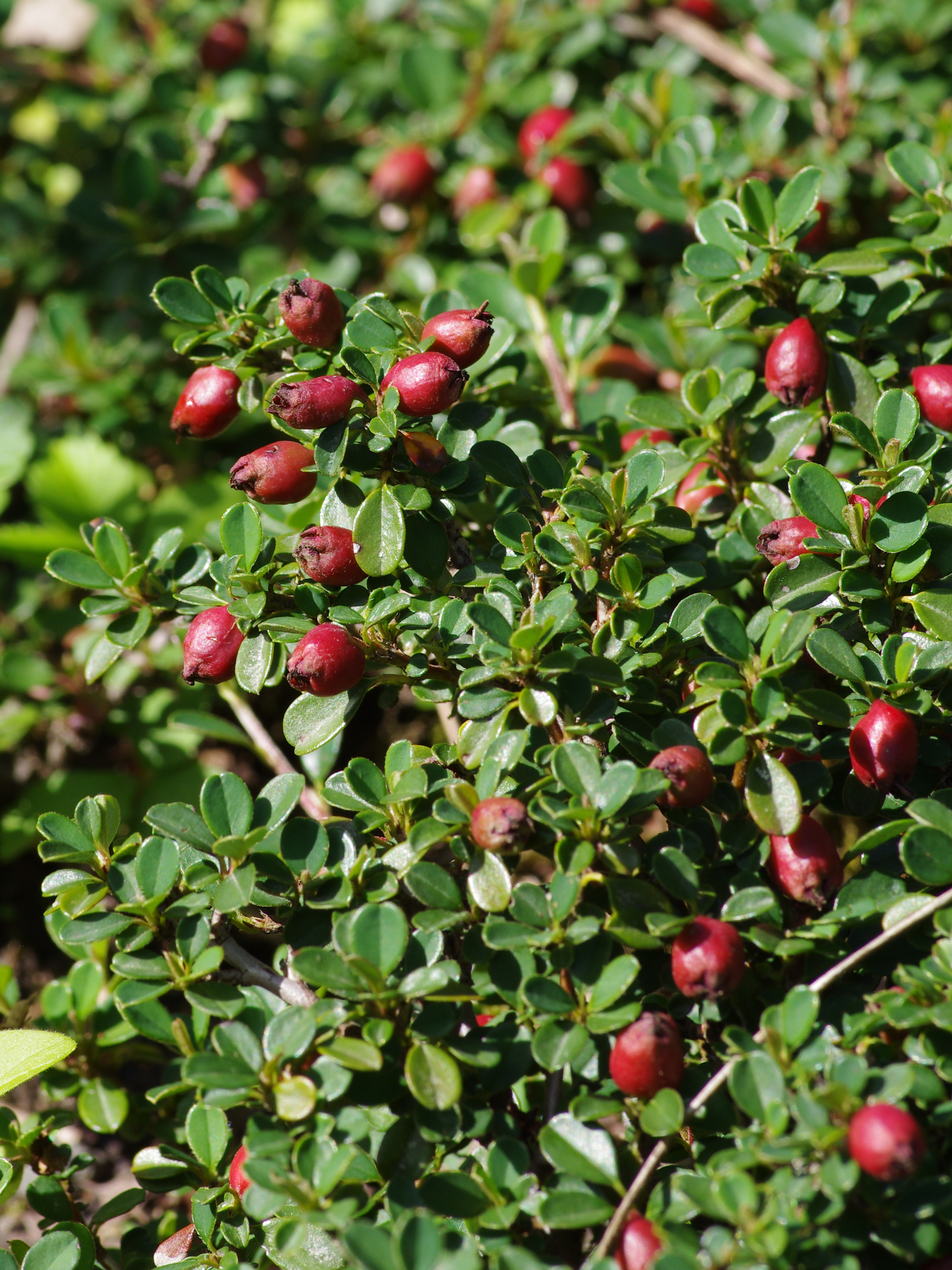 Cotoneaster microphyllus var. thymifolius at the ÖBG Bayreuth